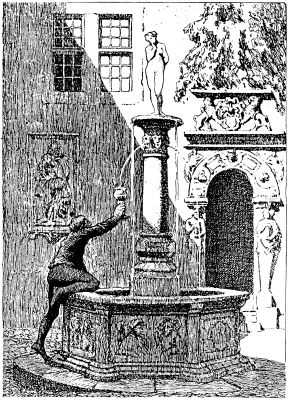 Illustration by Otto Ubbelohde to the fairy tale The Water of Life